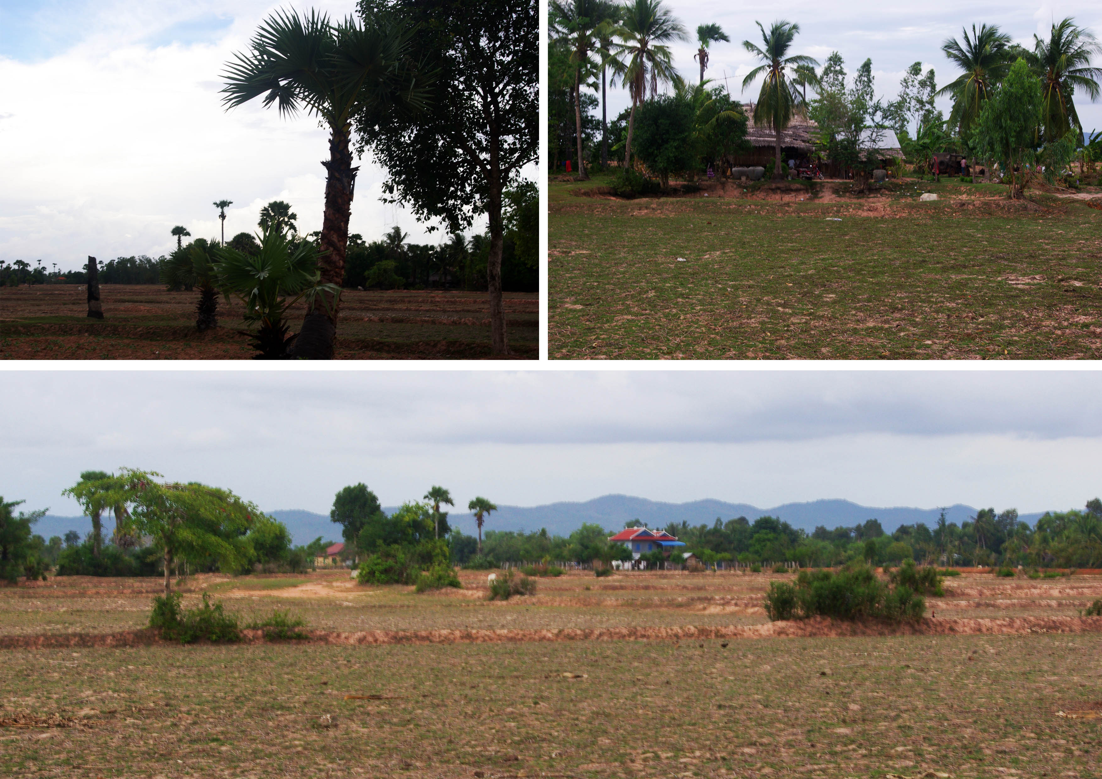 montage of photos of cultivated lands in rural Takeo province Cambodia, May 2010